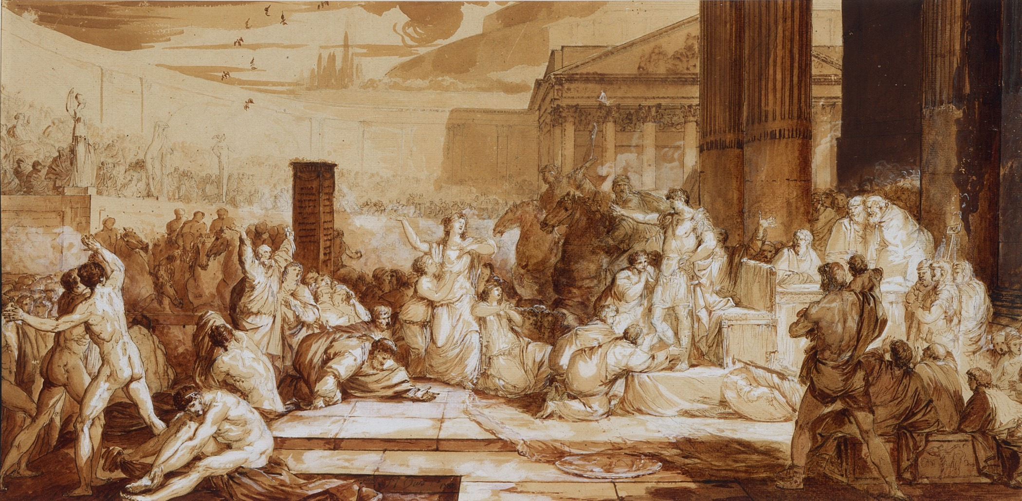 Switzerland, 1780 Drawings Brown ink and wash, heightened with white ink, over black chalk on yellow-tan paper Gift of Mr. and Mrs. Guy Stair Sainty (M.86.65) Prints and Drawings